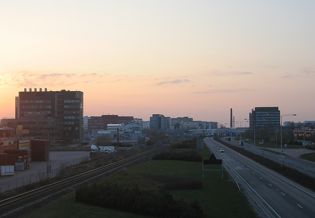 Kupittaa business area in Turku, Finland seen from Hippoksentie. Highway 1 (E18) on the right and Helsinki–Turku railway line on the left.